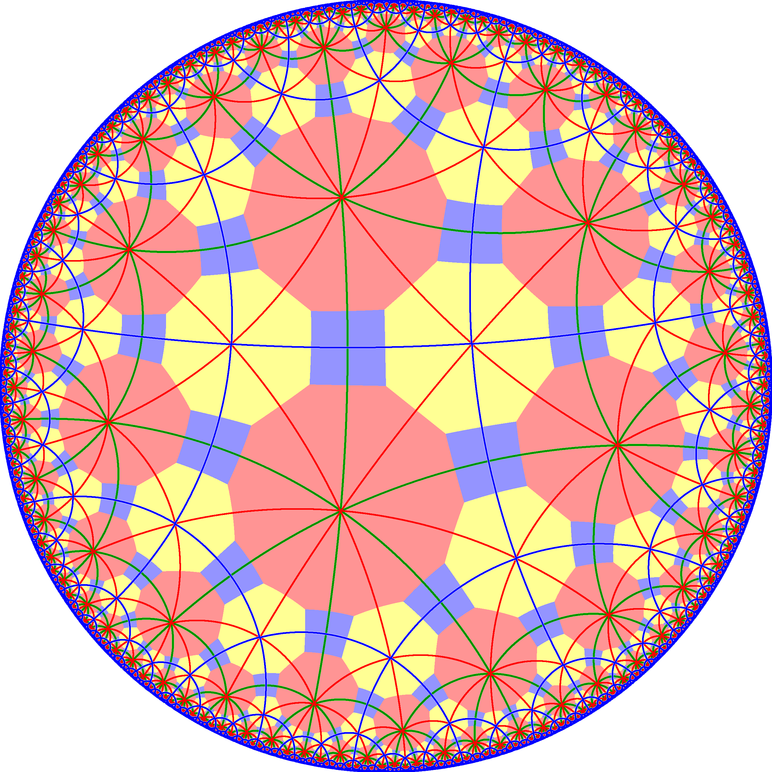 File:H2 tiling 246-7.png tiling with File:642 symmetry 000.png overlay